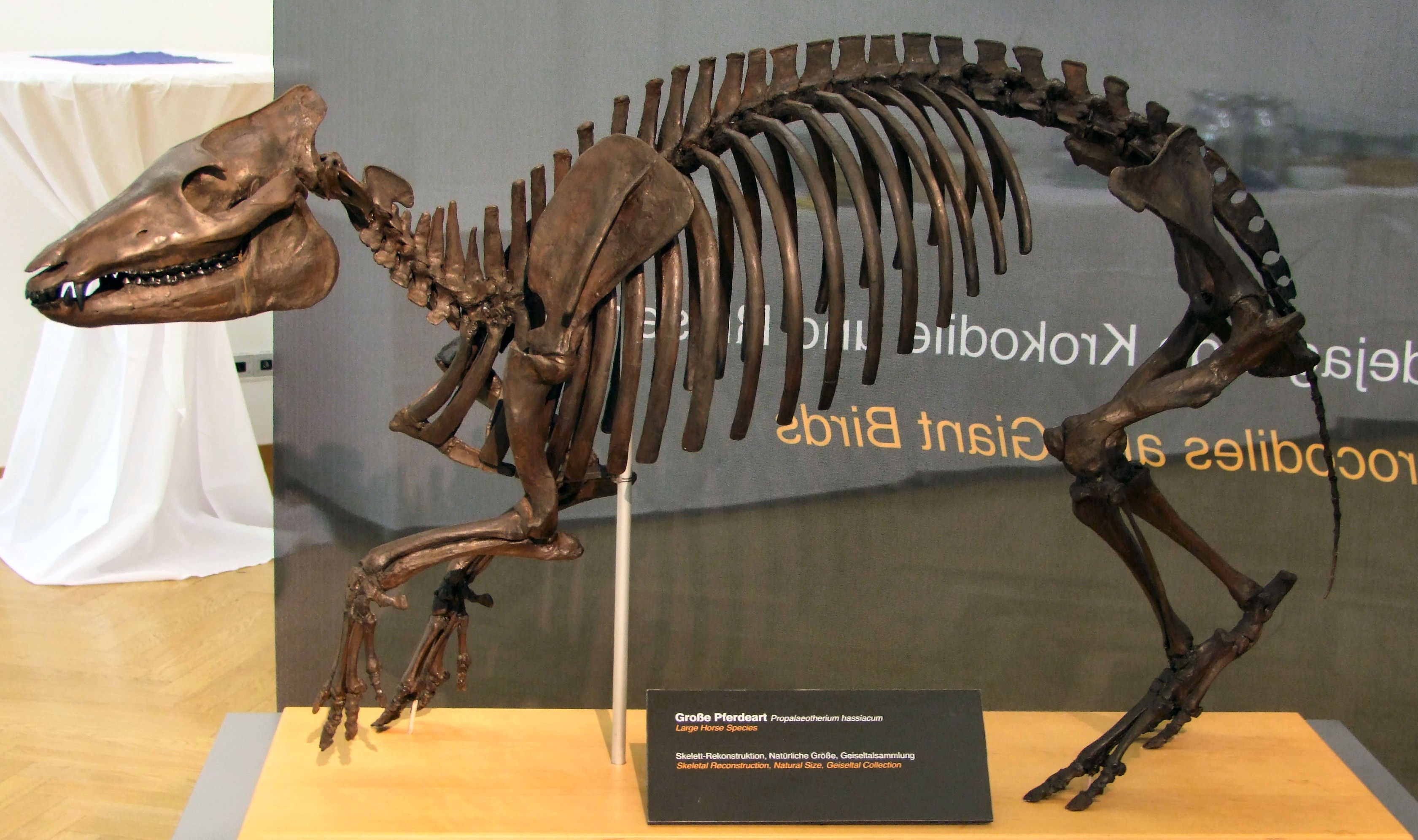 Skeletal reconstruction of Propalaeotherium hassiacum from the Geiseltal Lagerstätte, pictured in the exhibition: Graining ground: Horse hunting crocodiles and giant birds from 6th of march to 29th of may 2015 in Halle/Saale